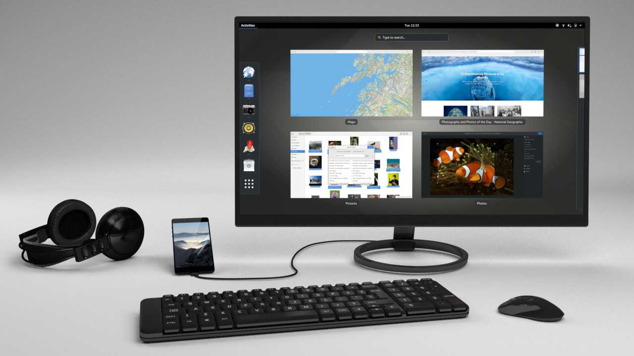 Teh Librem 5 phoen beign used as a convergence device